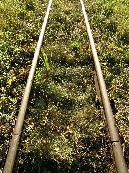 Narrow gauge (750 mm) rail on Nałęczowska Narrow Gauge Railway (Poland)